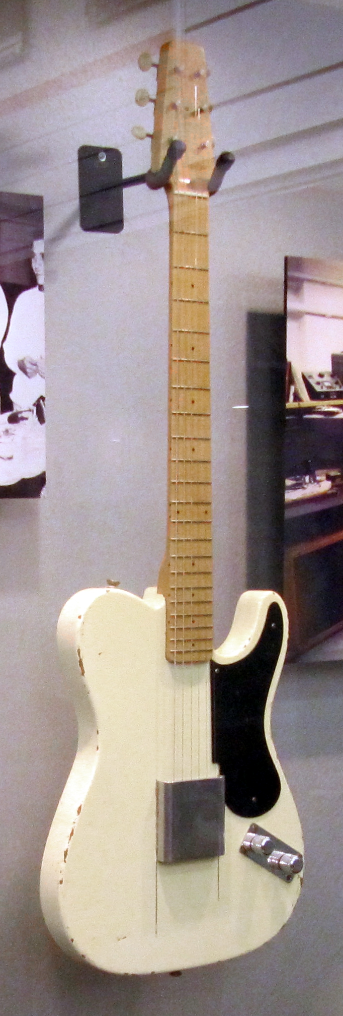 Fender Guitar Factory museum 1. Leo and early models Fender Broadcaster Esquire 1st prototype in 1949